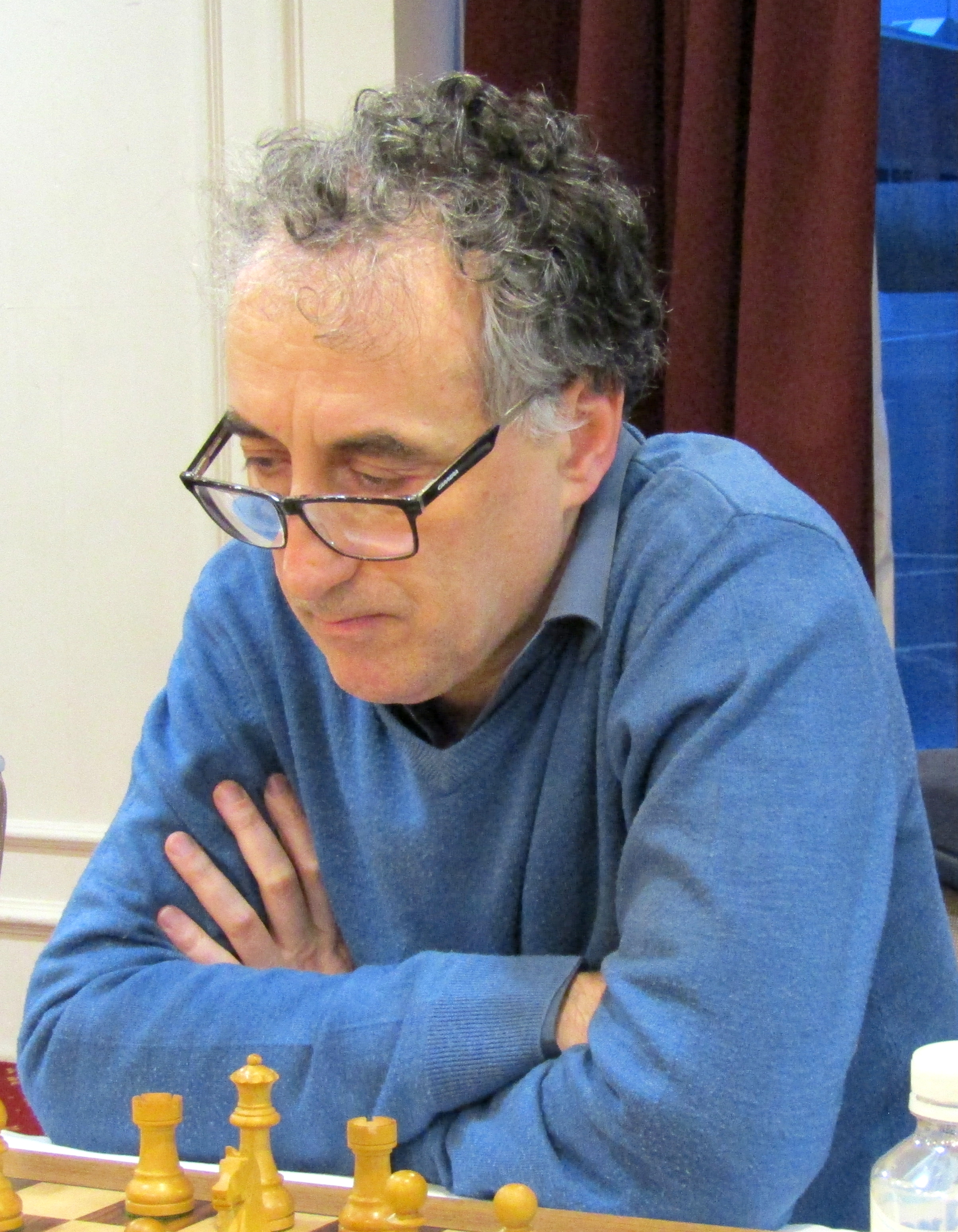 Malcolm Pein, chess player from England, 2017